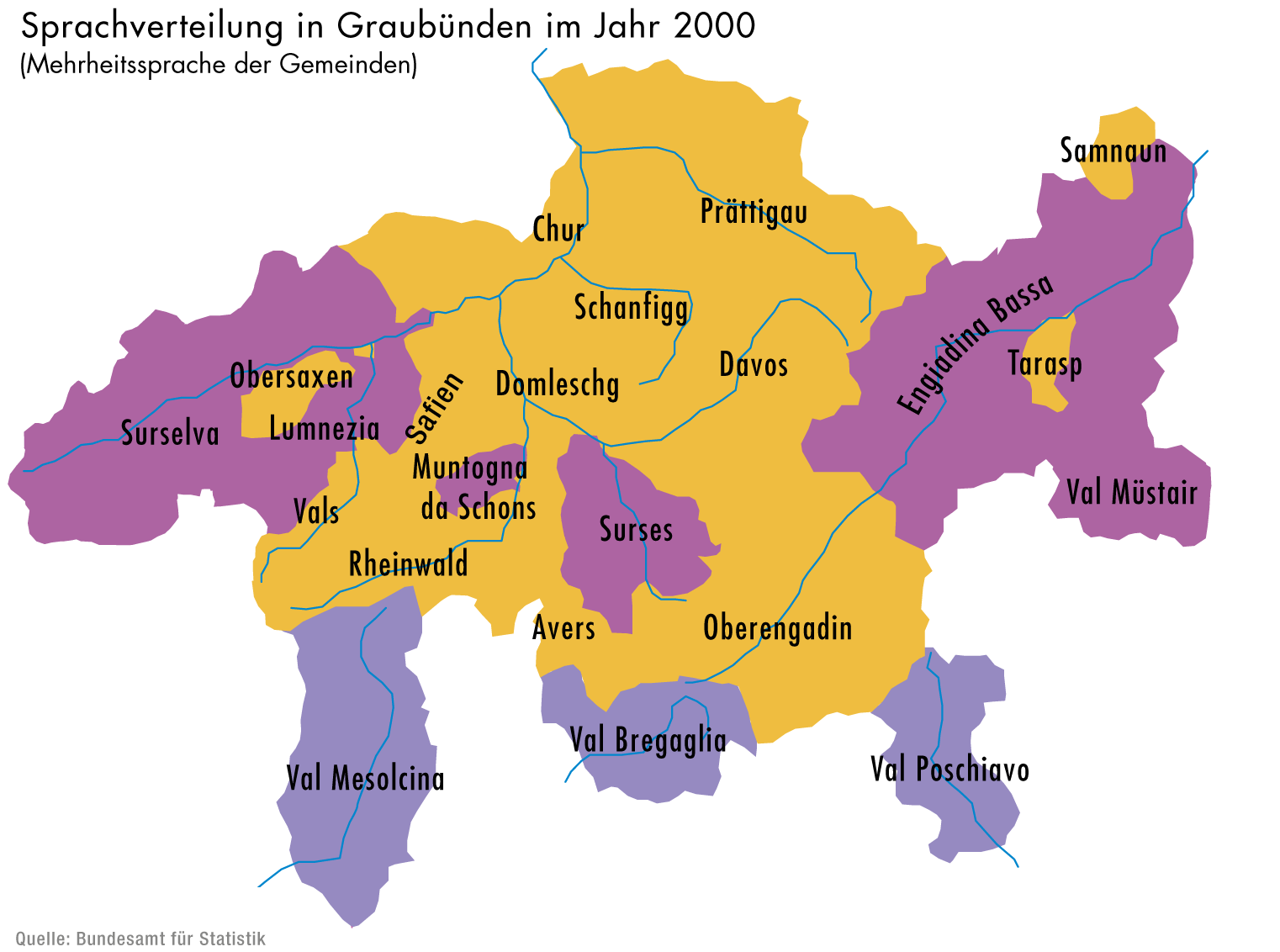 Language majority in the canton of Graubünden 2000 Rumantsch Deutsch Italiano